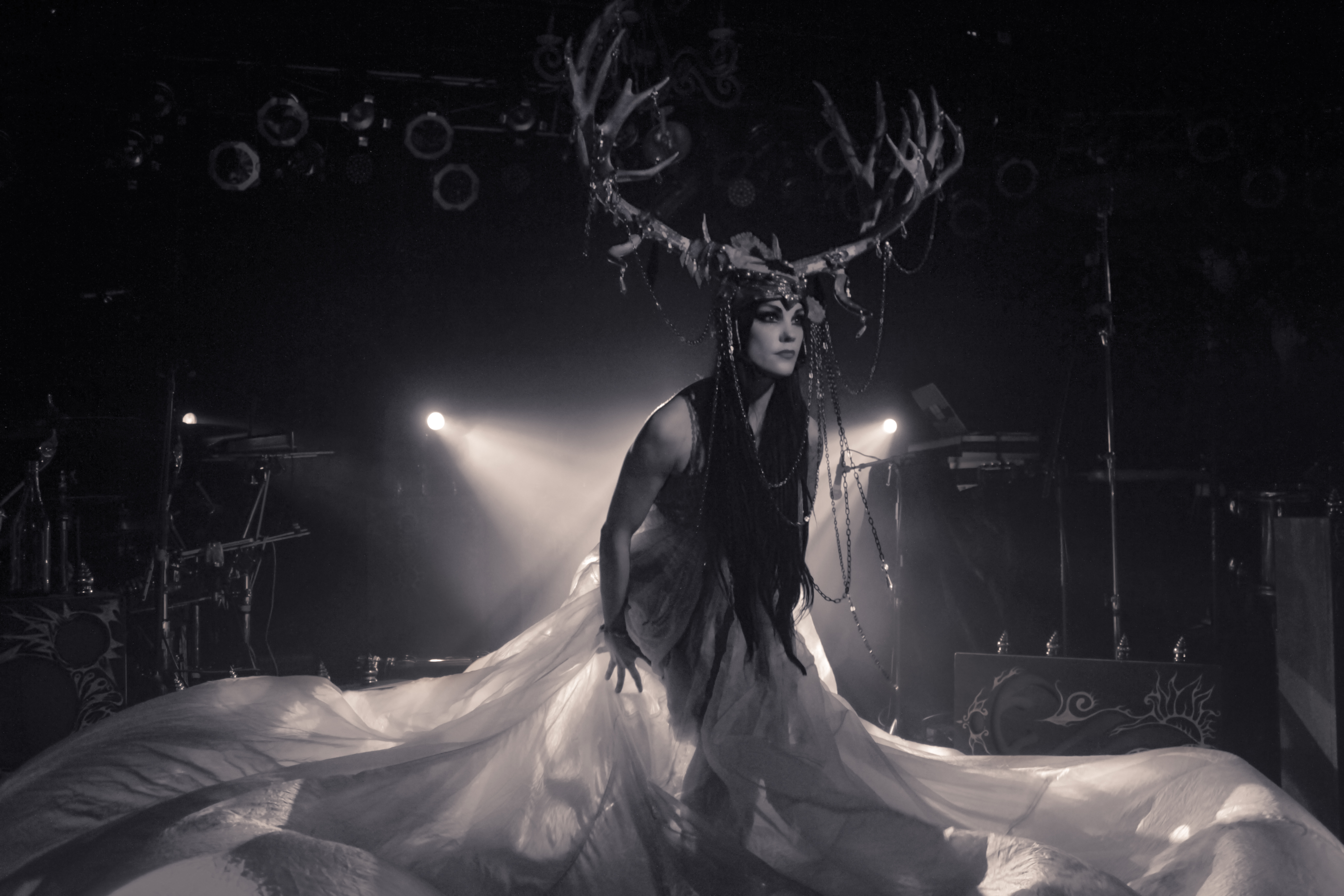 Performance artist Zoe Jakes performing with Beats Antique at Rick's in Starkville, MS.